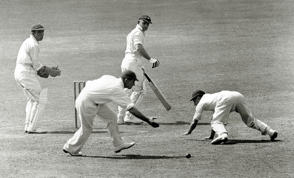 14th June 1938, 1st Test Match at Trent Bridge, Nottingham, Australia v England, Match Drawn, Australia batsman Stan McCabe during their 2nd innings, luckily edges a ball from England's Verity, past the slip fielders Hammon and Edrich, McCabe scored a mammoth 232 runs in the Australia first innings